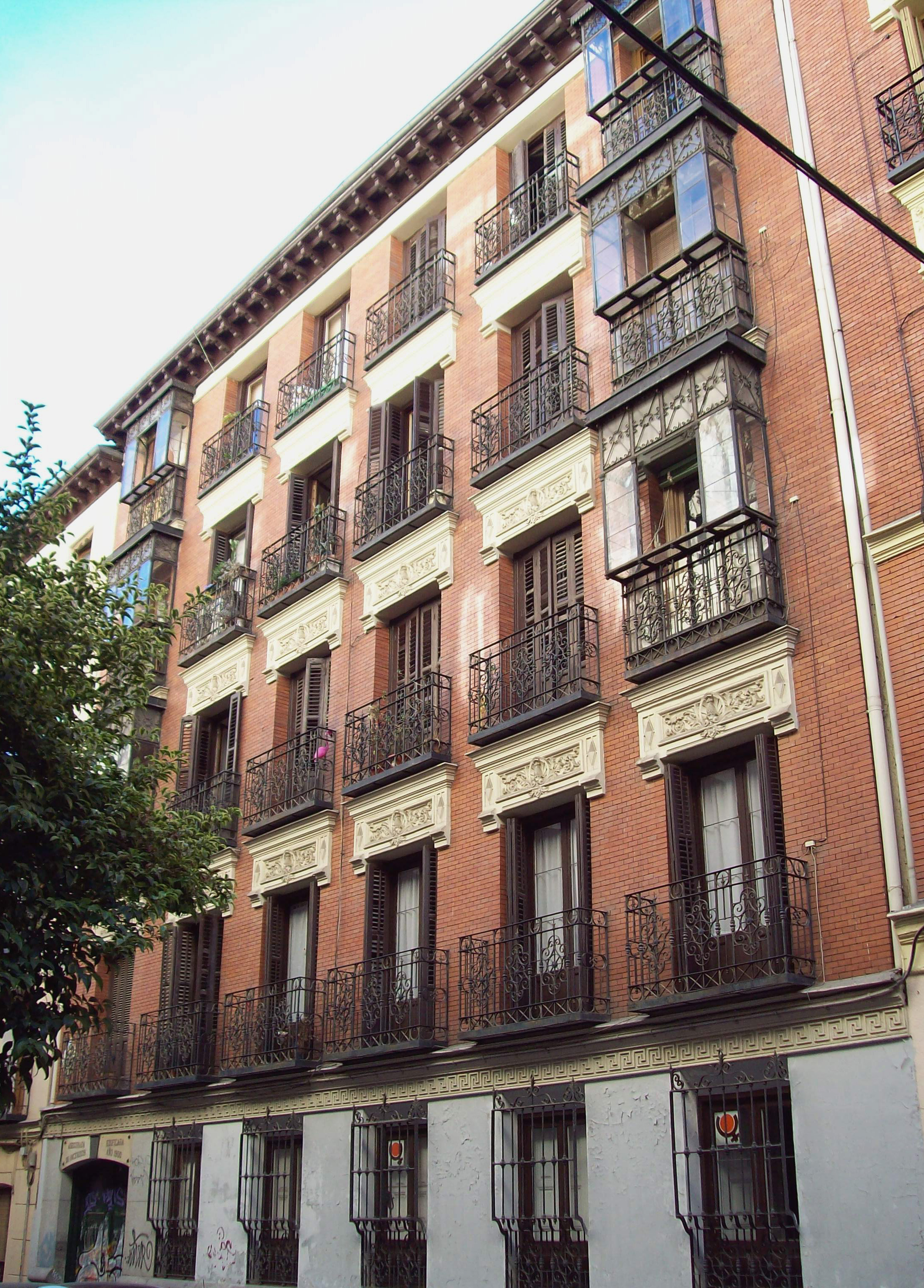 Building at 15th Calle de Churruca (street) in Centro district in Madrid (Spain). Built in 1900. Writer Manuel Machado lived in it from 1917 until his death (1947).